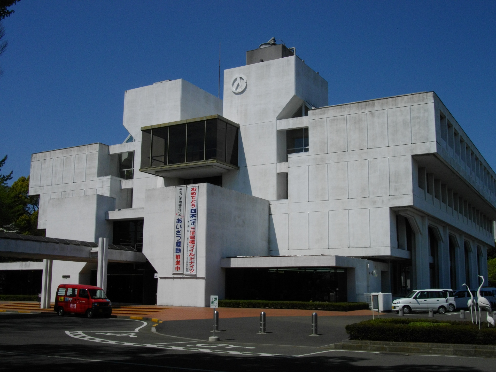 Oizumi Town Office